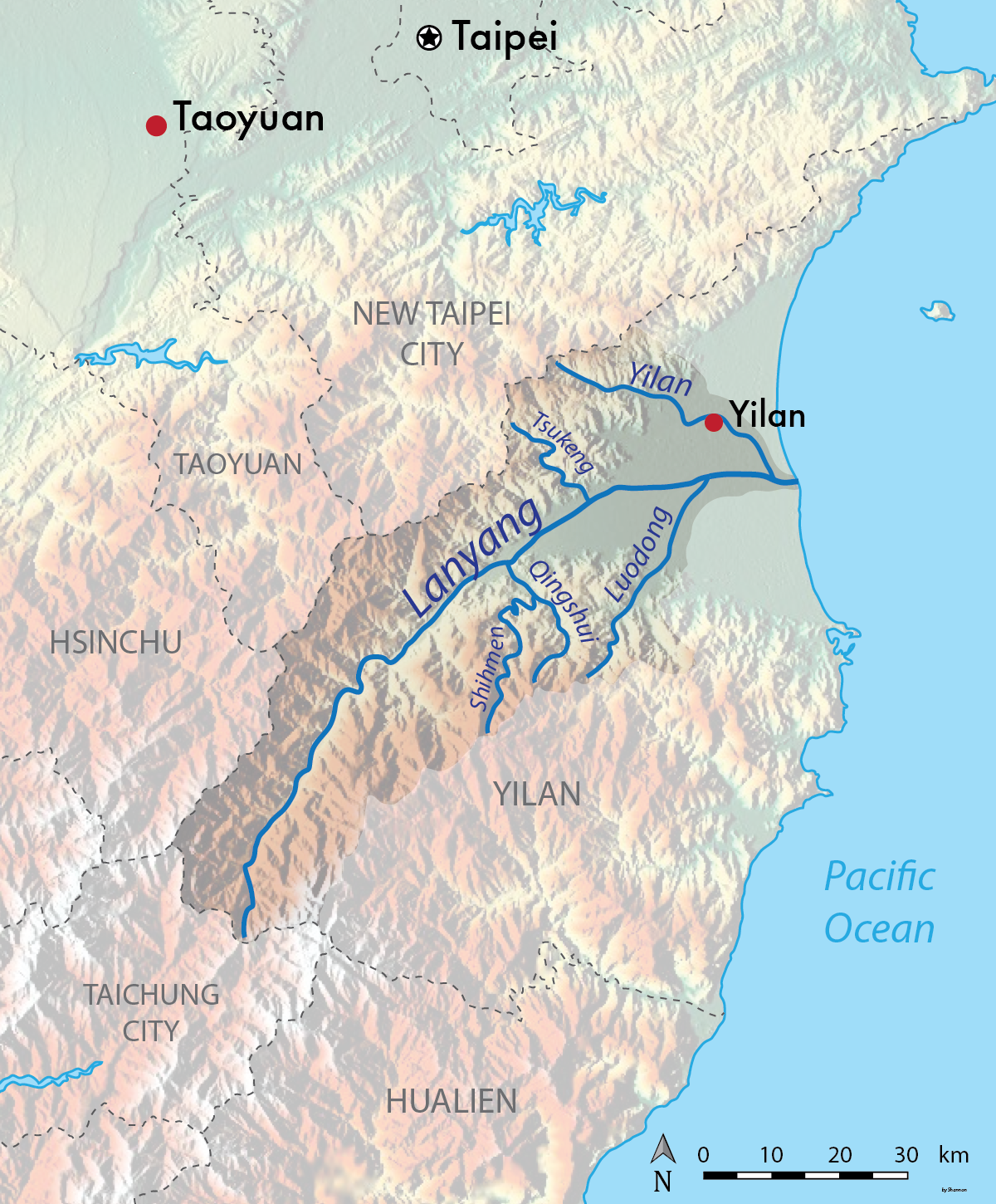 New map showing the Lanyang River in north-eastern Taiwan. Shaded relief from US Geological Survey.